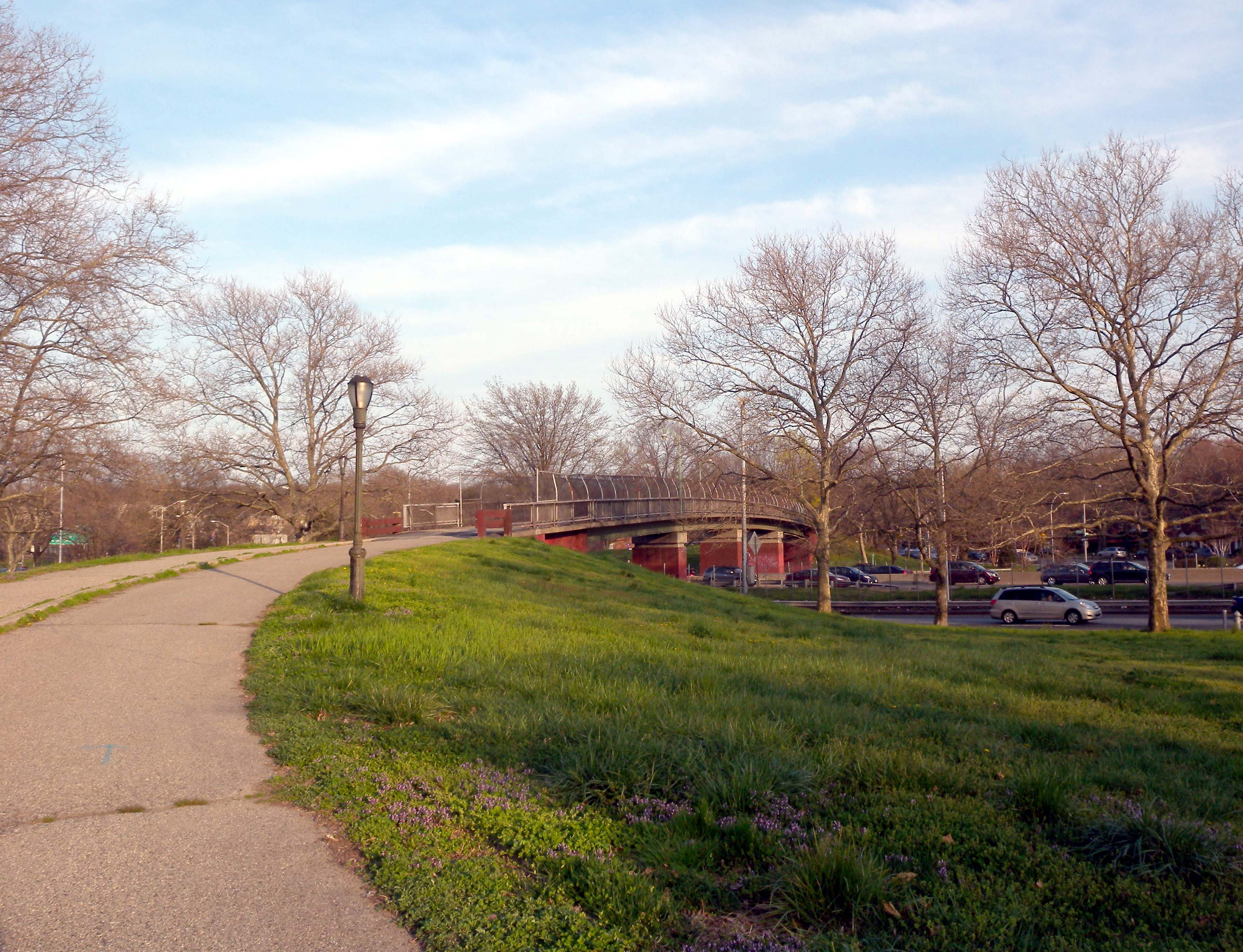 Looking southeast as Brooklyn-Queens Greenway climbs to cross Long Island Expressway on a partly sunny late afternoon.